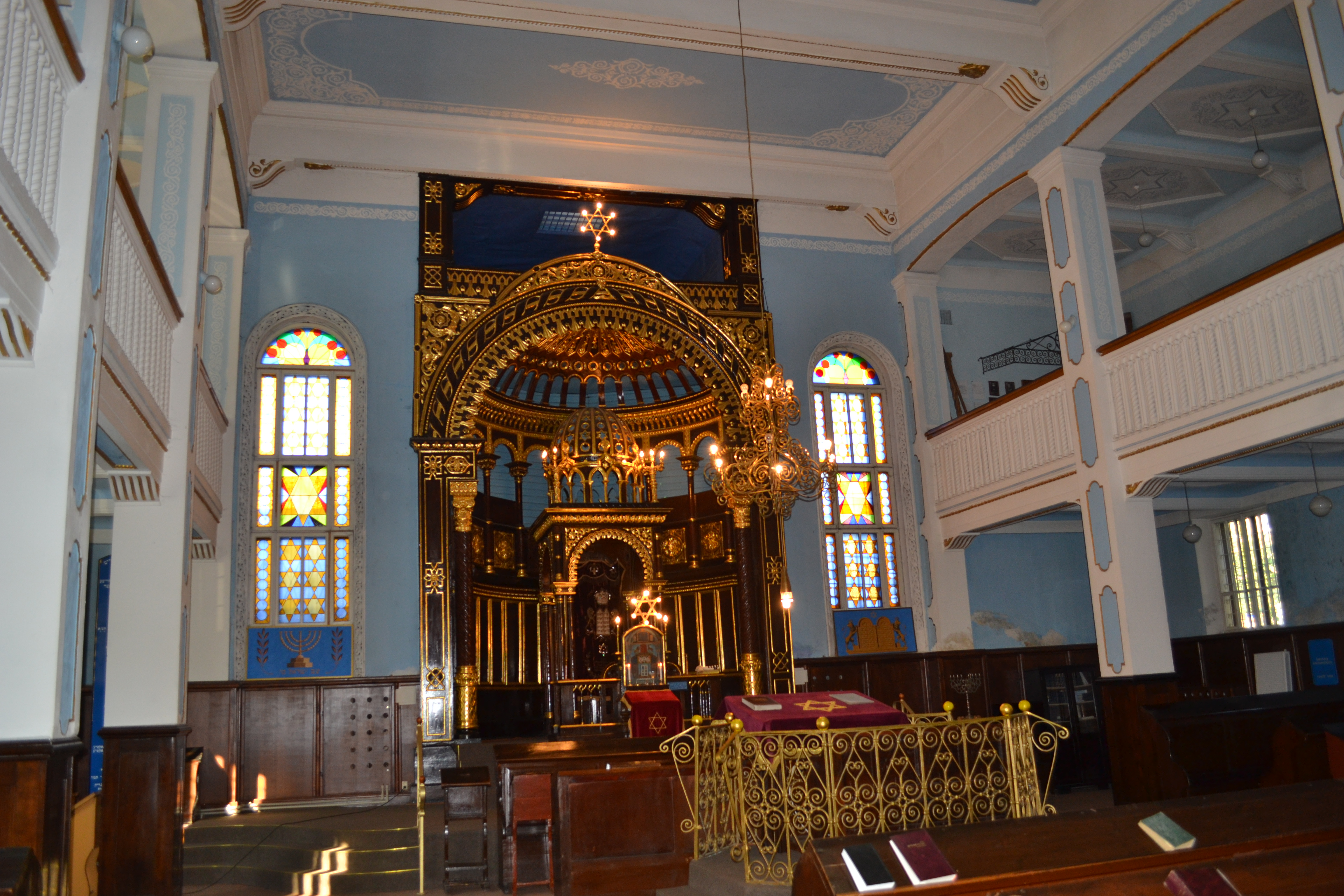 Synagogue Kaunas inside view